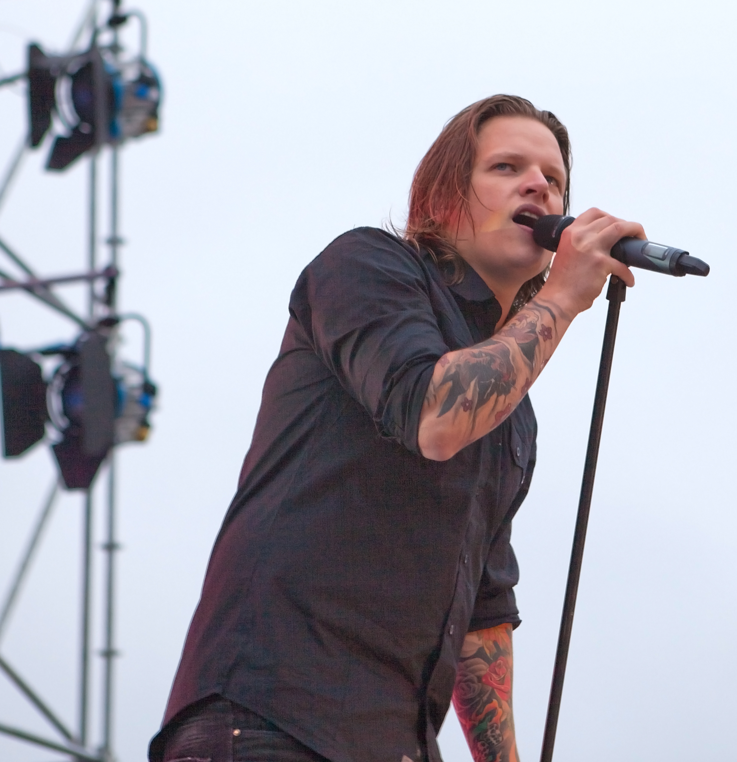 LOVE Stockholm 2010, Takida with Robert Pettersson